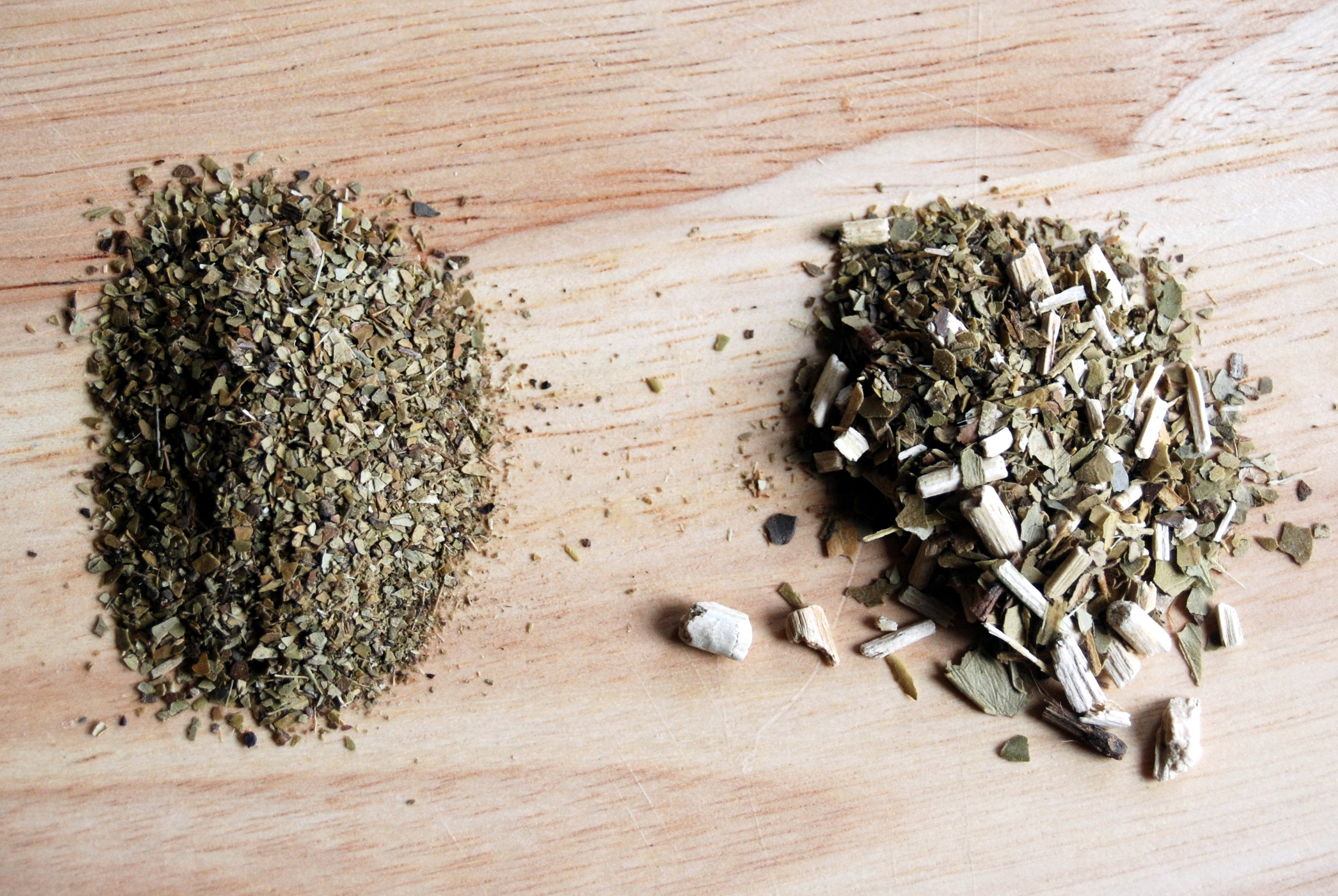 Yerba mate with different levels of granularity denominated “yerba mate elaborada despalada” and “yerba mate elaborada con palo” (from left to right).